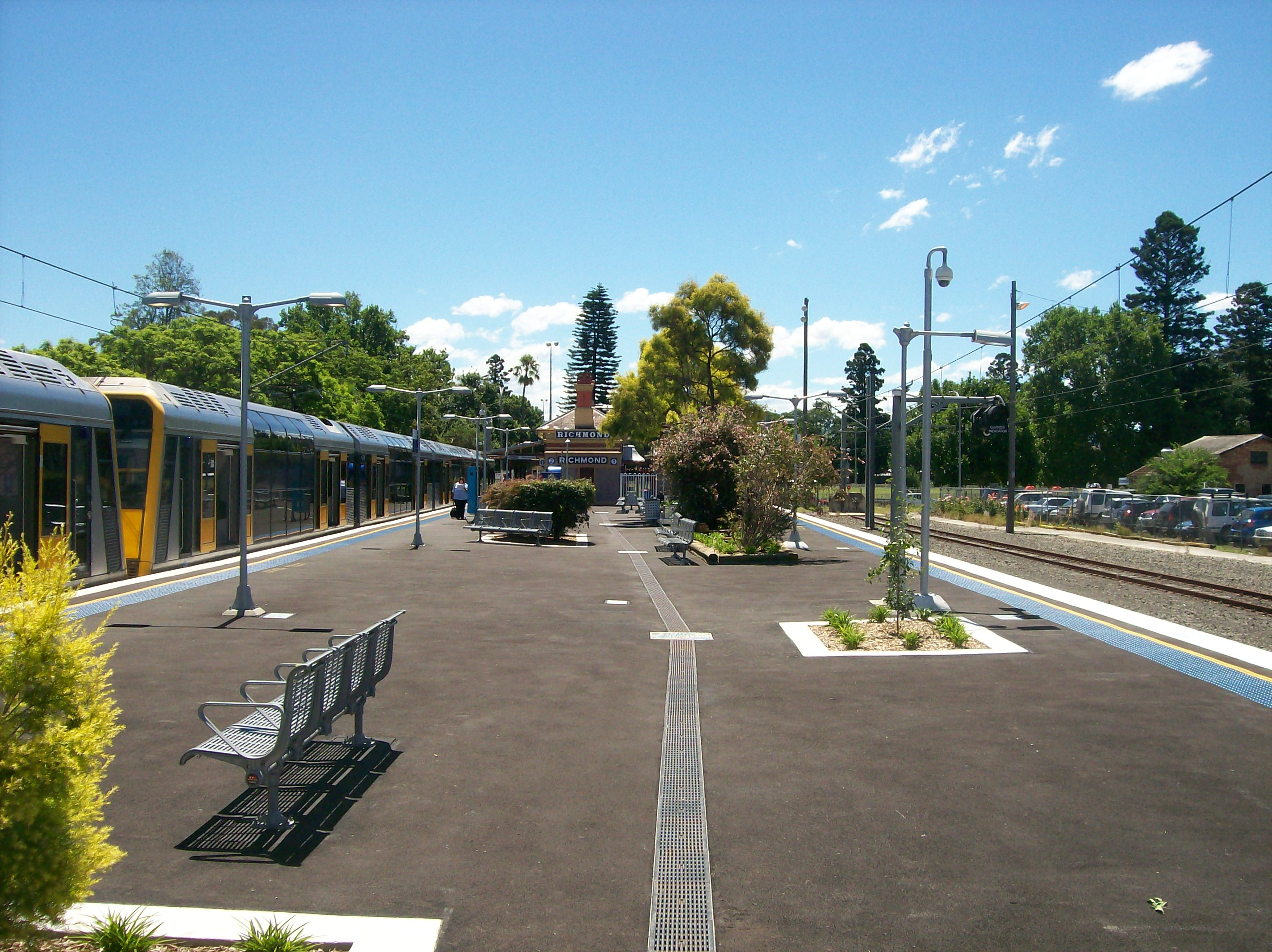 Richmond railway station platforms